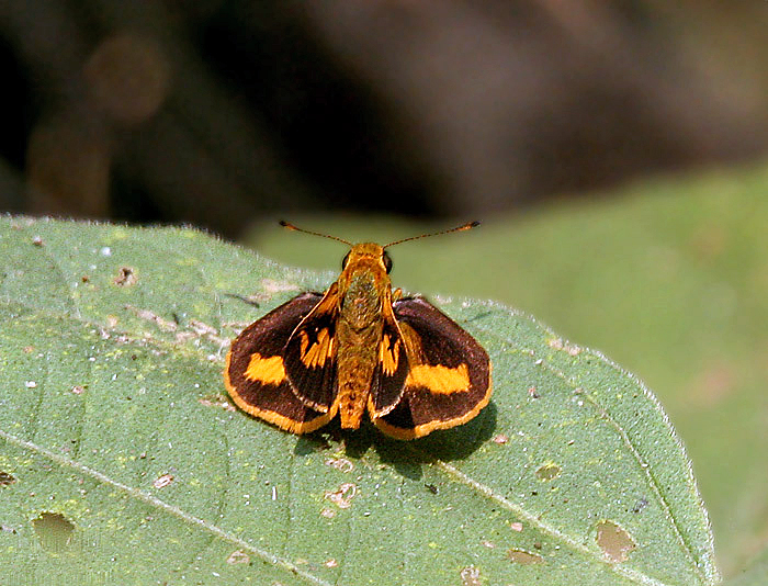 Indian Darlet Oriens goloides. At Narenderpur near Kolkata, India.